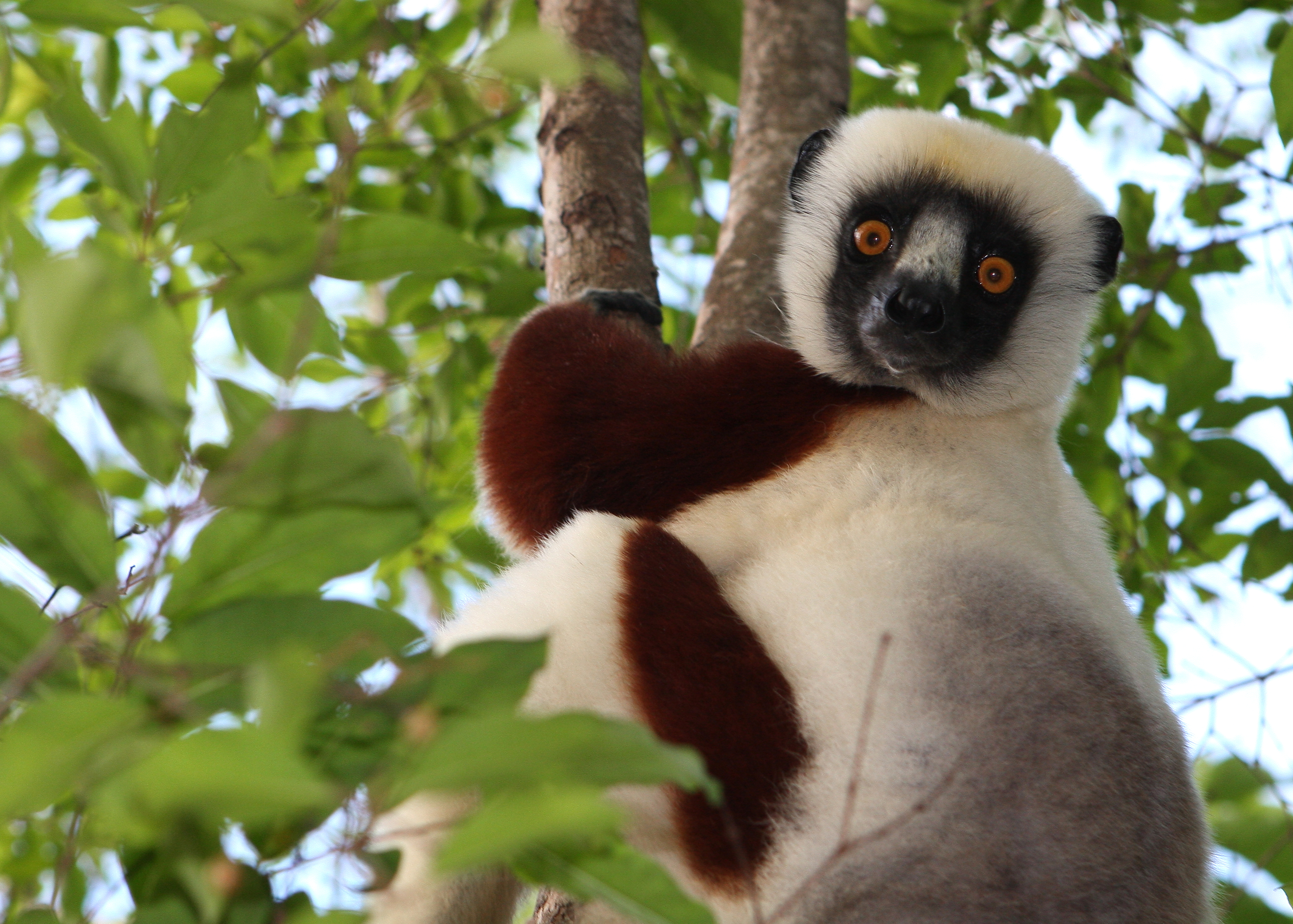 Coquerel's Sifaka (Propithecus coquereli) in northern Madagascar